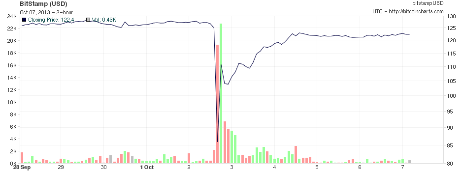 Rate of Bitcoin at beginning of October 2013